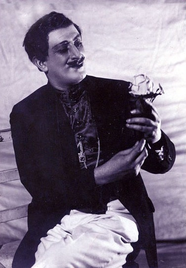 Bulbul as Asgar in 1938